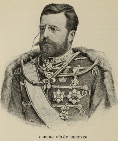 Portrait of Coburg Fülöp